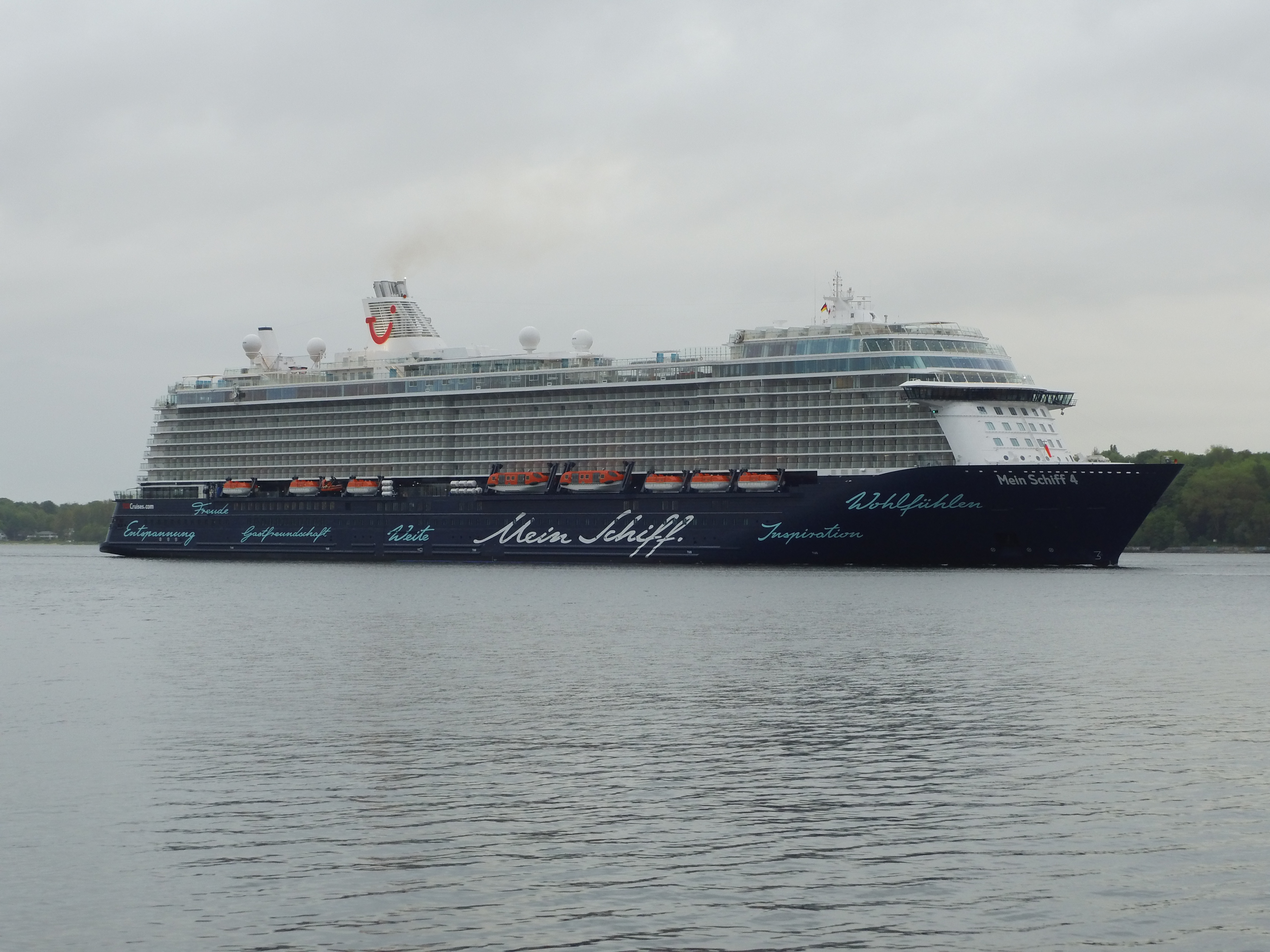 Mein Schiff 4 for the first time in Kiel